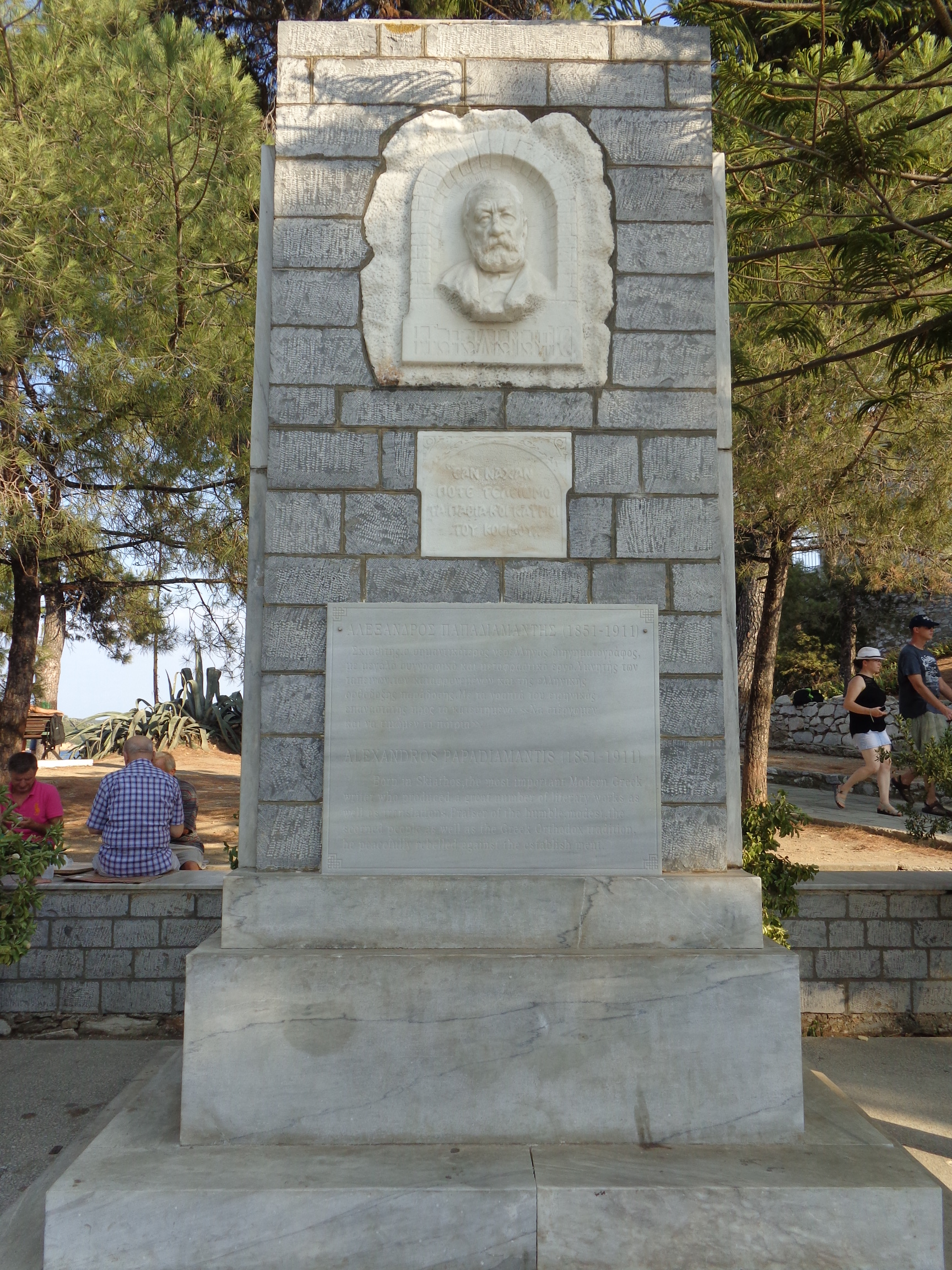 Monument of Alexandros Papadiamantis, Bourtzi, Skiathos, Greece